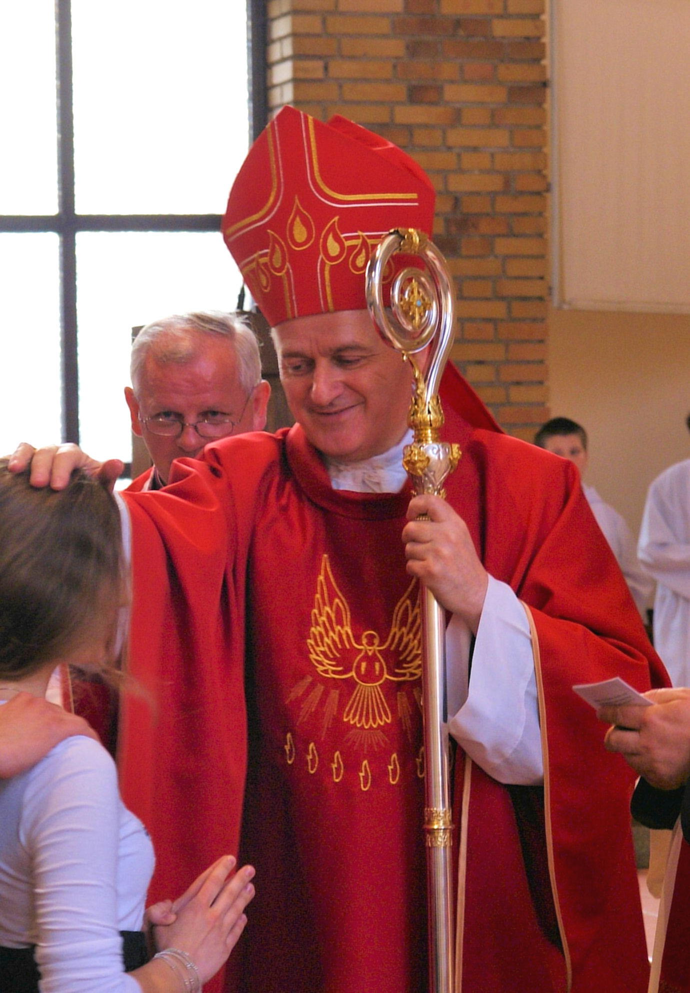 Grzegorz Balcerek, bishop of Poznań during confirmation, Poland